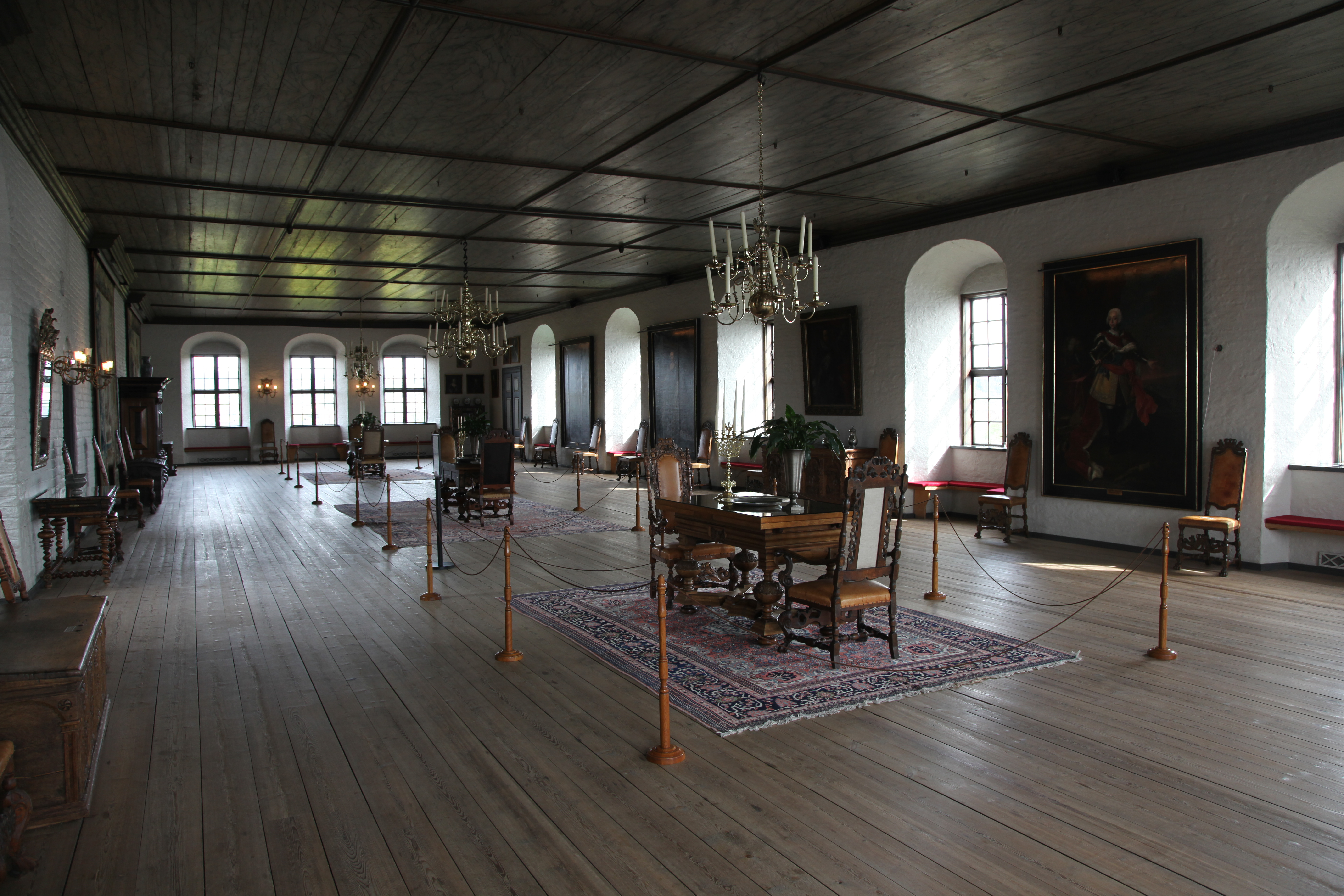 Akershus Castle. Christian IVs hall.